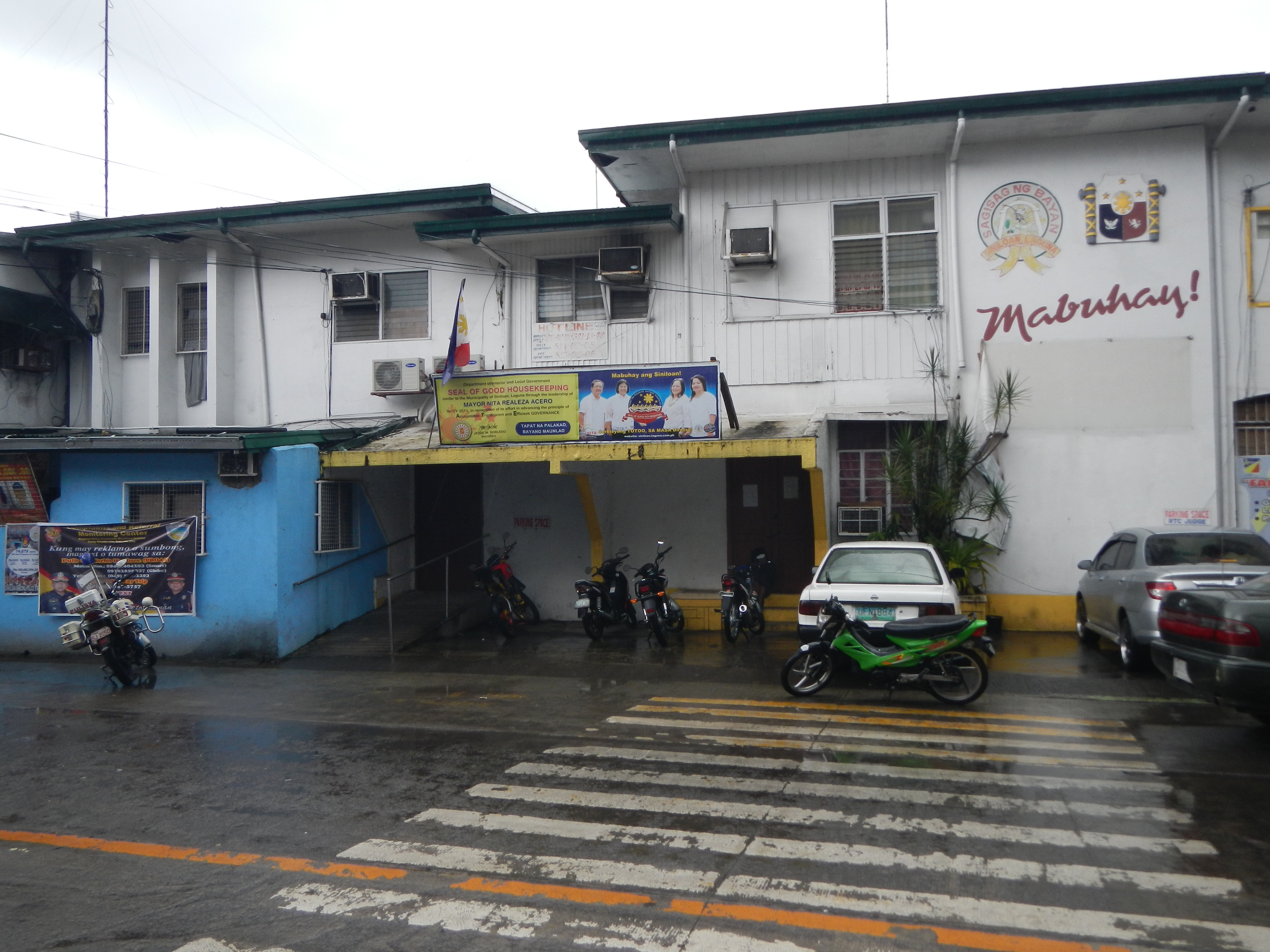 UploadWizard photos -- (General description, 3-dimension angle by angle photography of this town, church & landmarks) --Siniloan Municipal Hall (Siniloan town proper) [1] Coordinates: 14°25'17"N 121°26'44"E - within the Covered Court is a stadium & beside Town Plaza and the Siniloan Church Website --Siniloan, Laguna[2] subdivided into 20 barangays. Of these, 13 are classified as urban and 7 are classified as rural. Coordinates: 14°26'3"N 121°28'58"E[3] [4]